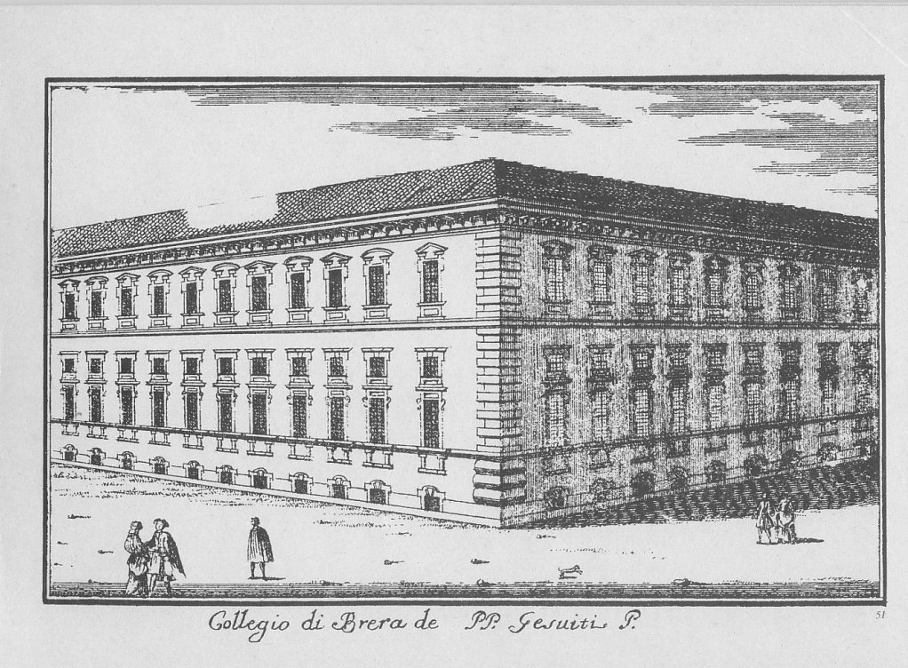 Marc'Antonio Dal Re (1697-1766), "Colleg of Brera owned by the fathers Jesuits" in Milan. This engraving is # 51 from a set of 88 Vedute di Milano ("Views of Milan") published by Del Re around 1745.